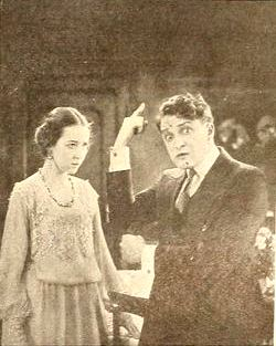 Still from the American film A Very Good Young Man (1919) with Helen Jerome Eddy and Bryant Washburn, on page 726 of the July 19, 1919 Motion Picture News.